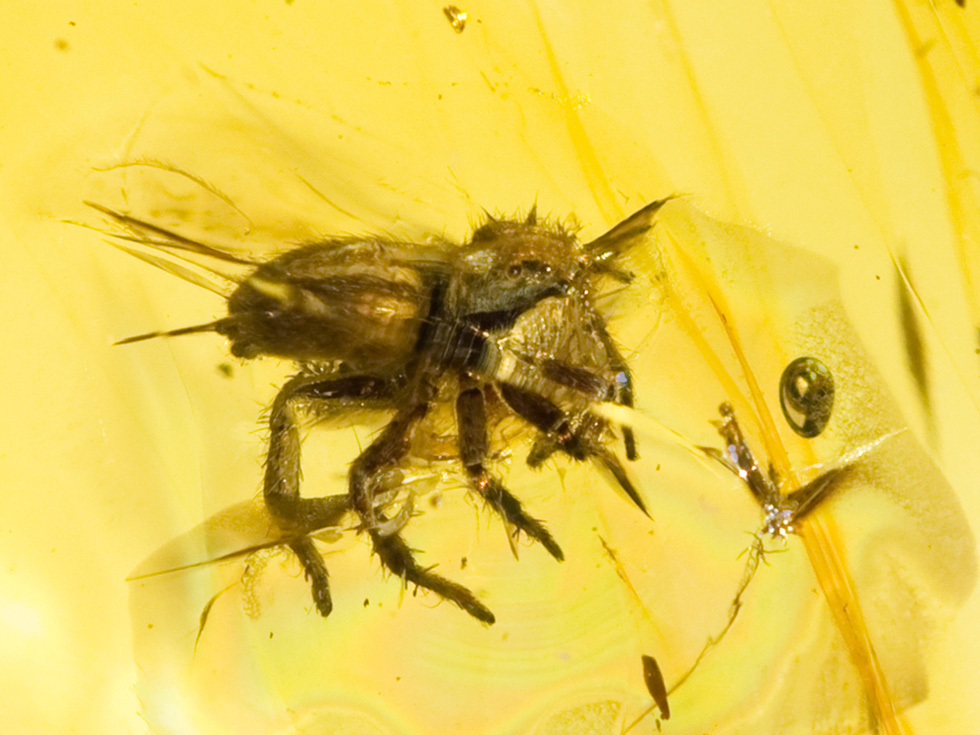 Jumping spider in Baltic amber